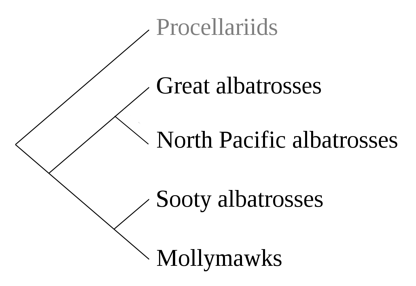 Derived from File:Albatross phylogeny.svg